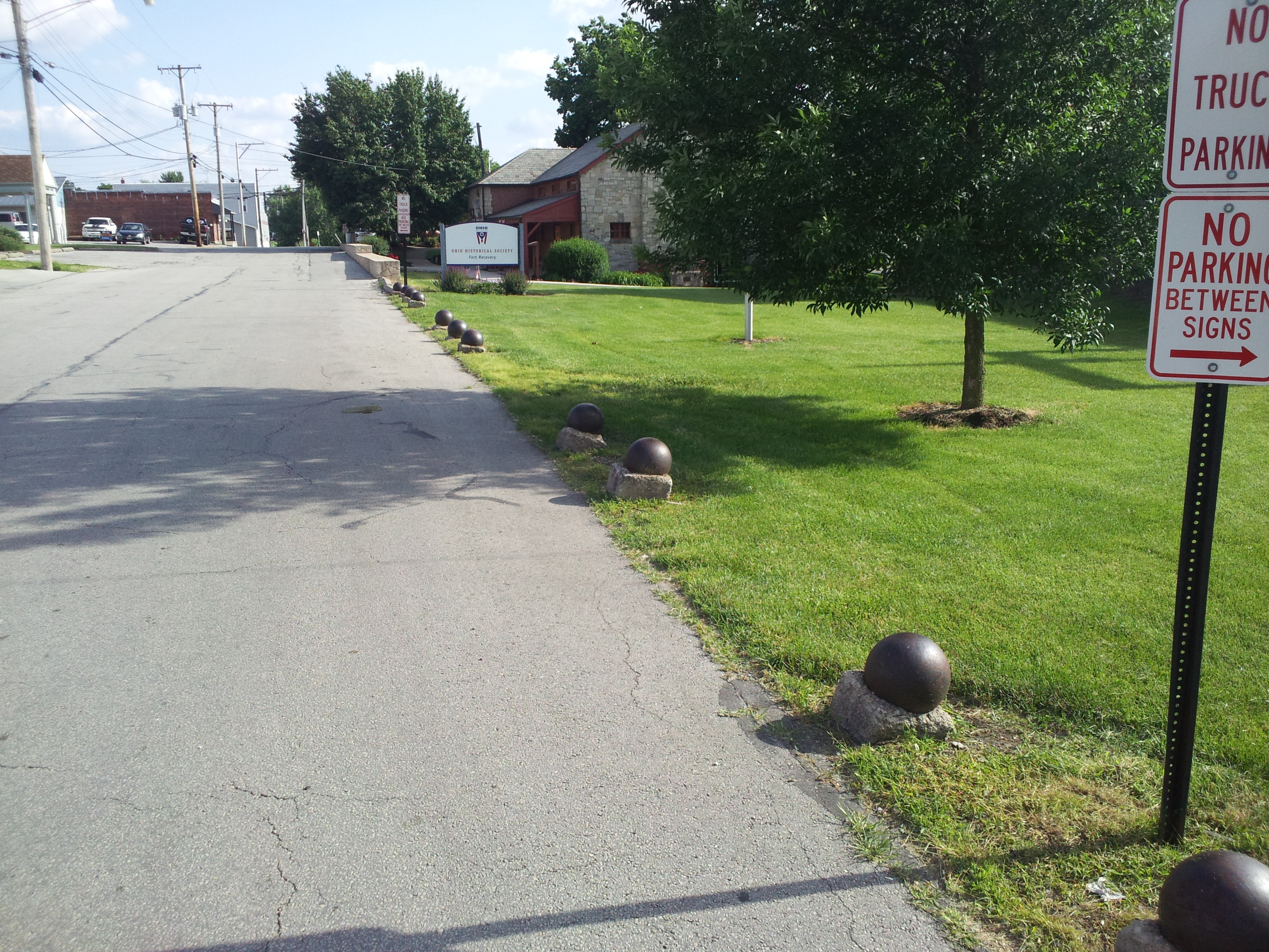 Cannonballs left over from Fort Recovery, now seen at the replica. Cannonballs can also be found around the village in many locations, including private property.